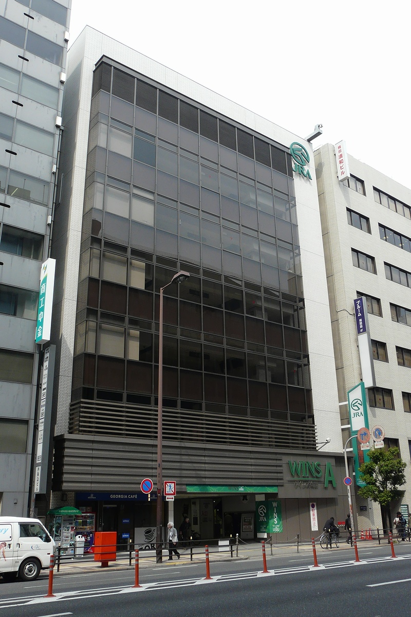 WINS-Umeda-1